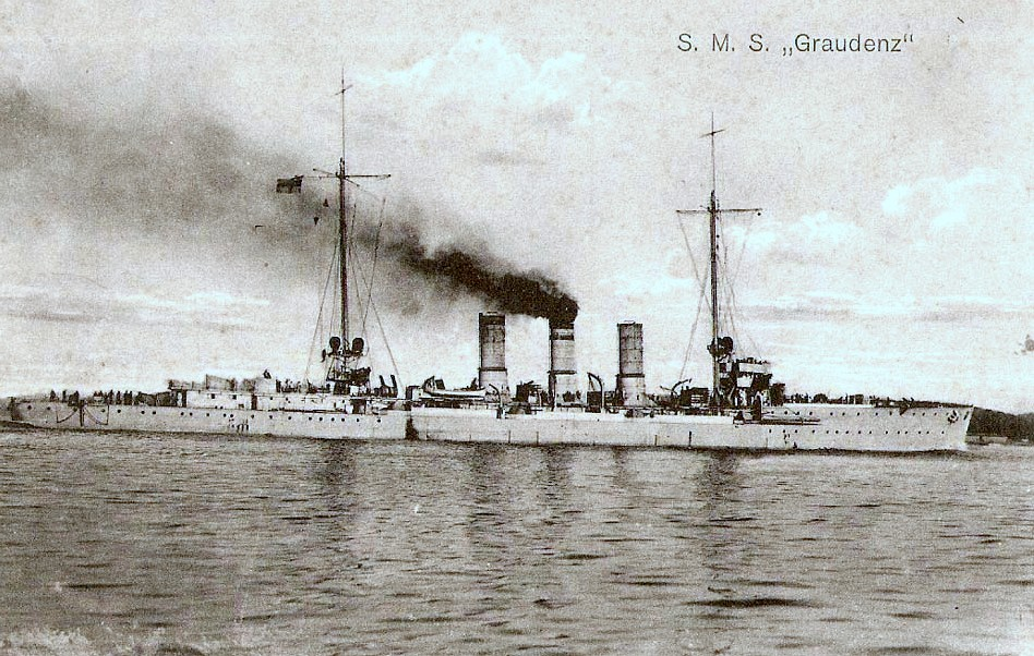 SMS Graudenz (Kaisezrliche Marine)